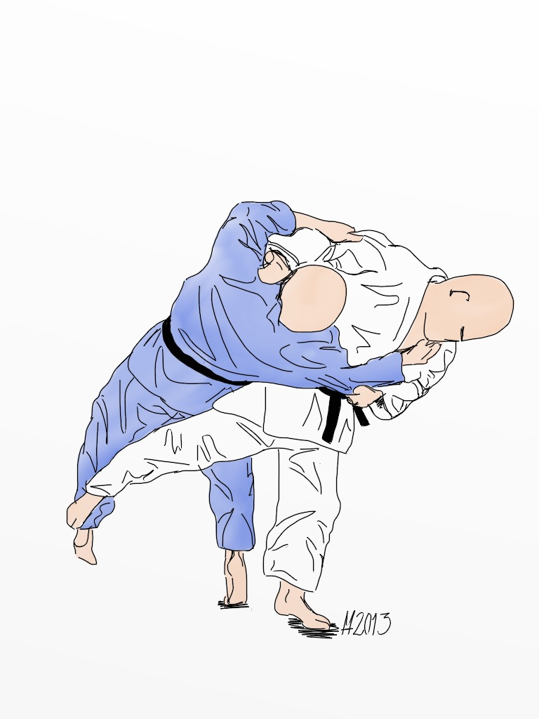 Illustration of the judo throw o-soto-guruma, or large-outer-wheel where you sweep your opponents both legs to throw him backwards.